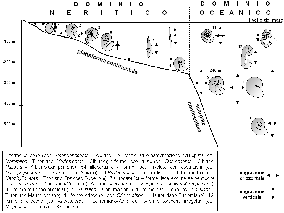 Scheme of cretaceous habitats for ammonites. Synthesis of various studies (mainly Scott, 1940; Westermann, 1990; 1996); redrawn and simplified. Text in italian.